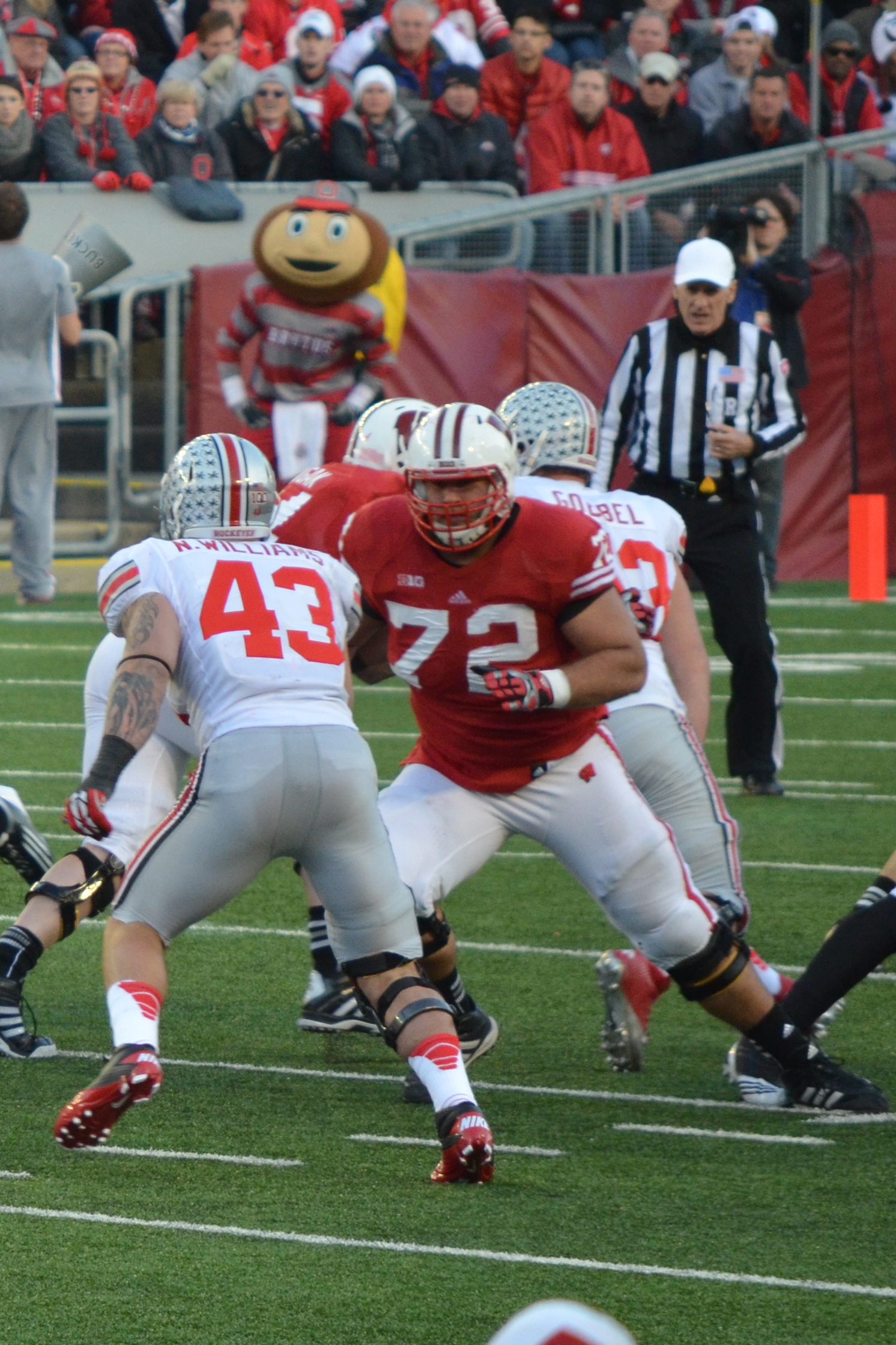 Travis Frederick in action vs OSU 11.17.12